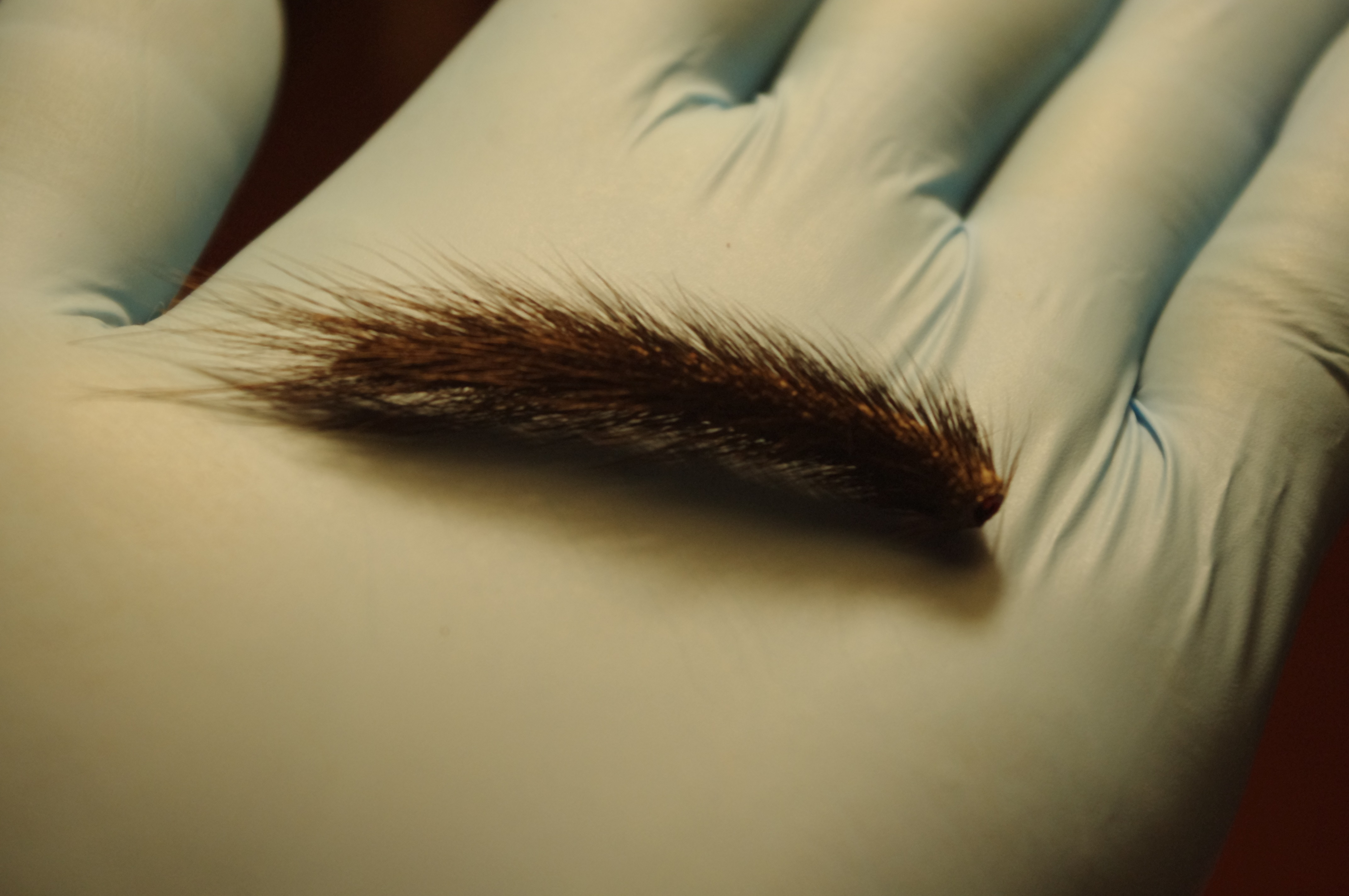 Lost part of the tail of degu (Octodon degus) immidiately after autotomy.